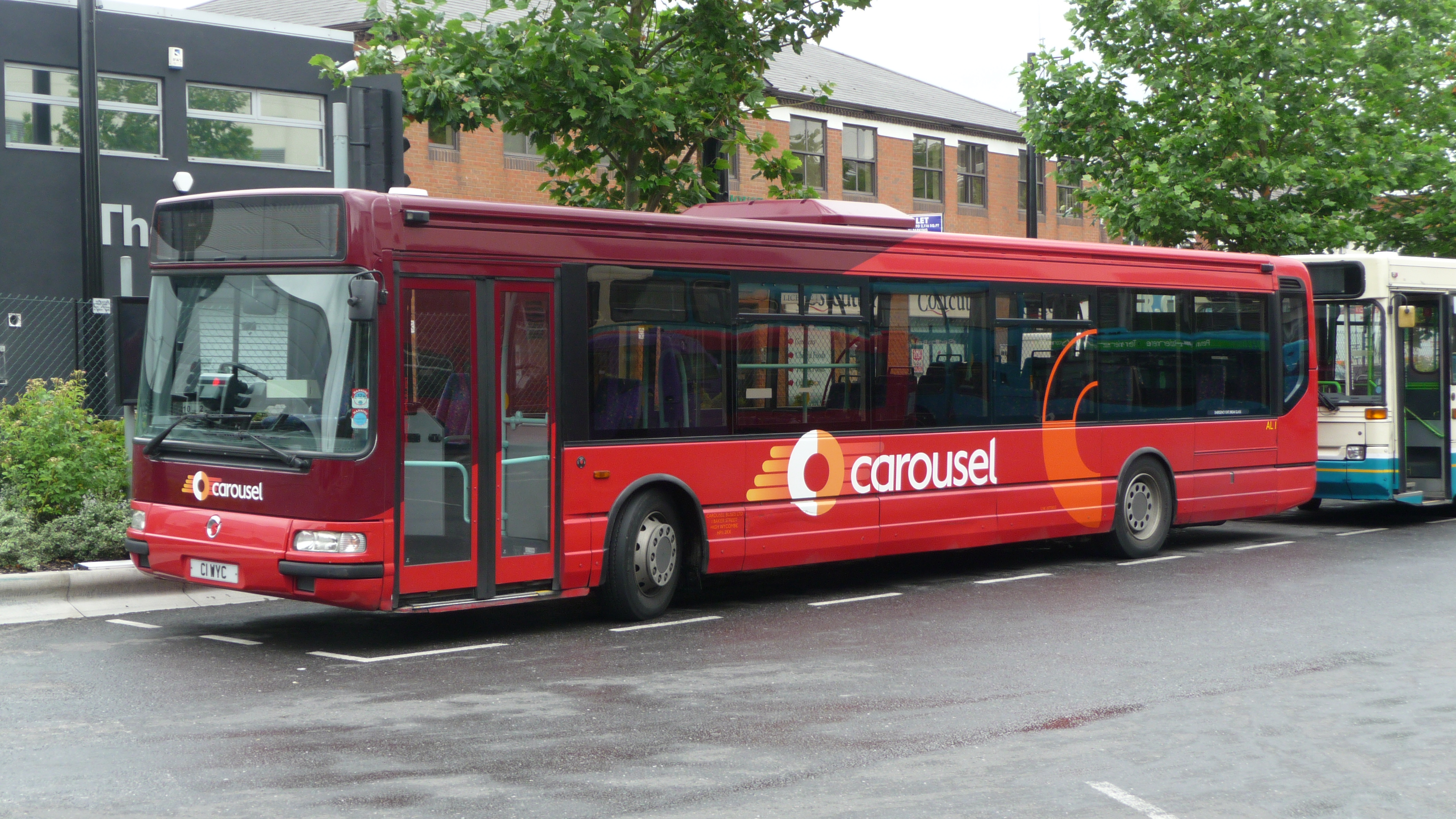 Carousel Buses AL1 (C1 WYC), an Irisbus Agora Line, in High Wycombe bus station, High Wycombe, Buckinghamshire, laying over between duties. These buses are made by Renault, and their bodywork for finished off in the UK by Optare.